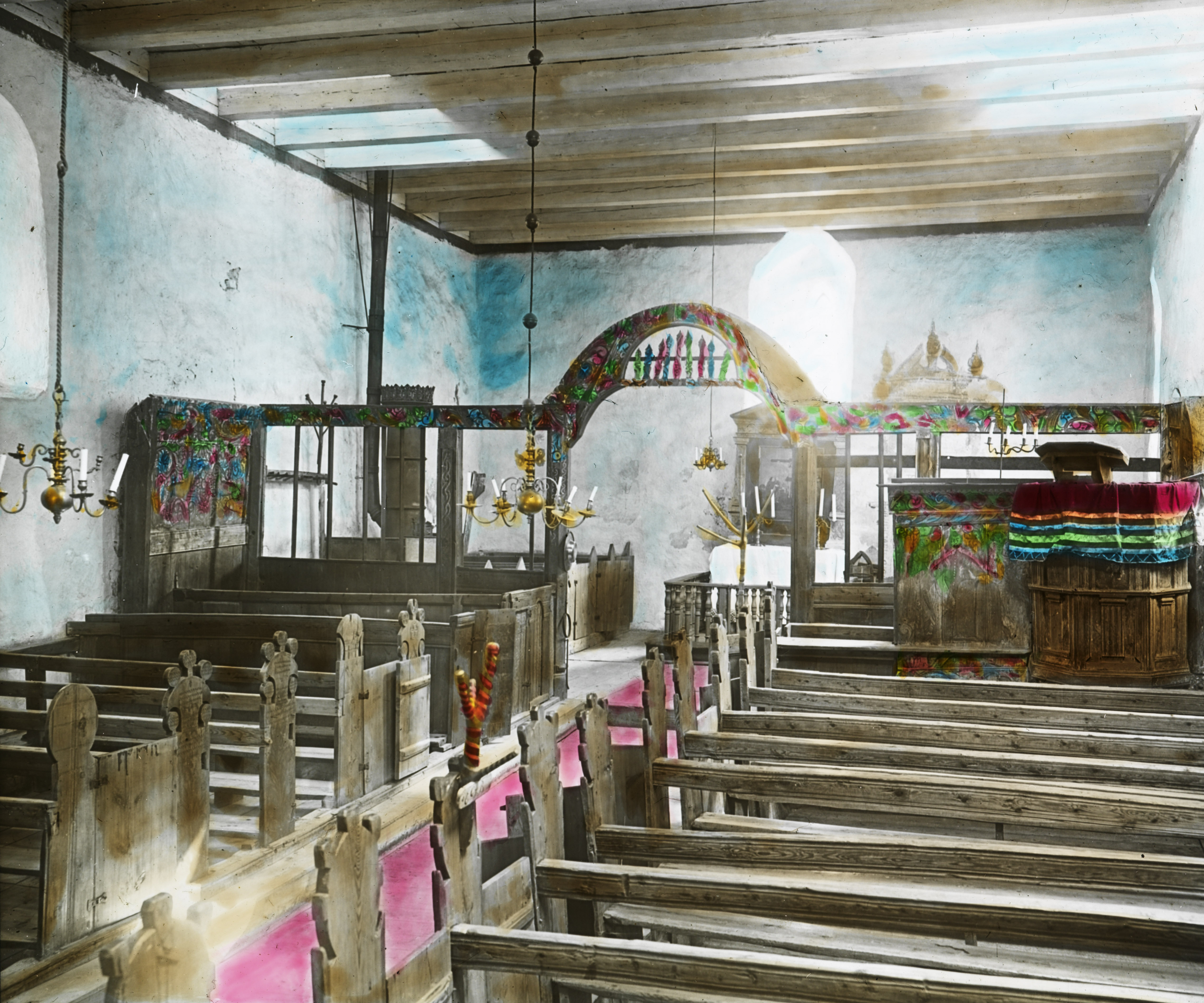 SFFf-1992078.0074 The interior of Eidfjord church, formerly called Vik church, in Hardanger. Original caption: "Vik church, Hardanger". Photographer: Samuel J. Beckett = 'SFFf-1992078.0074'